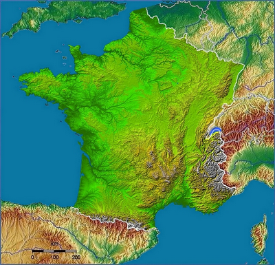 CARTE France RADAR 1 + Corse